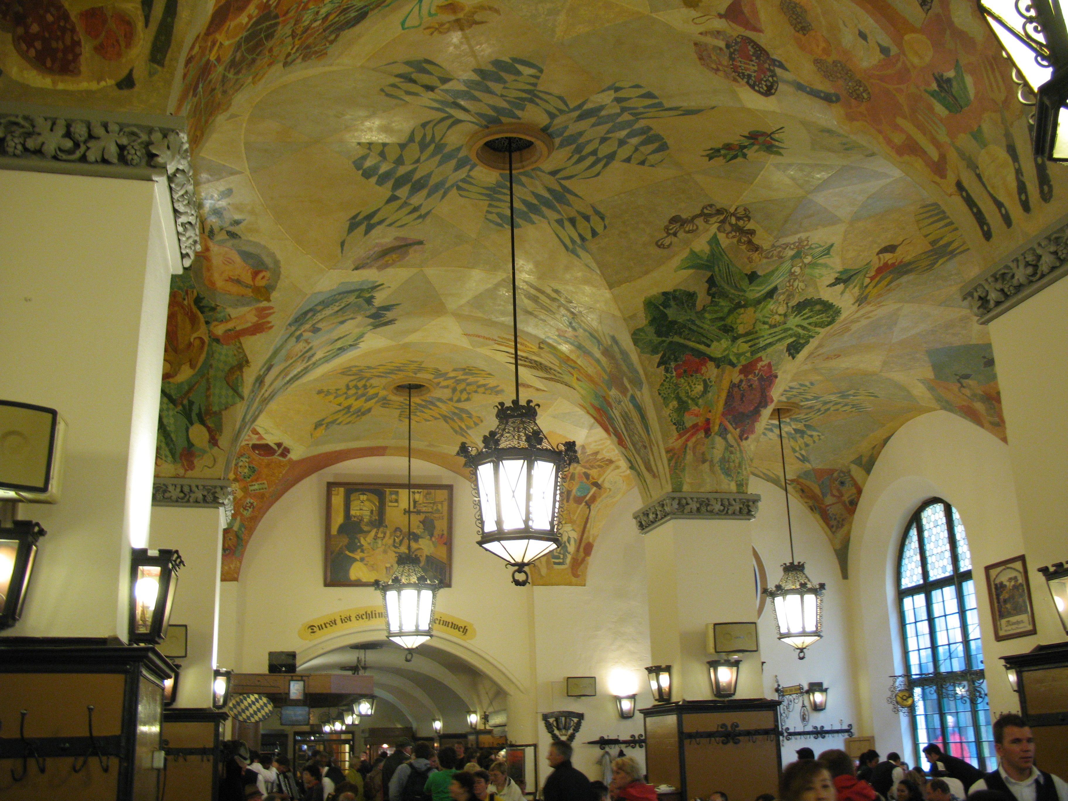 Yard Brew House, Munich, Germany